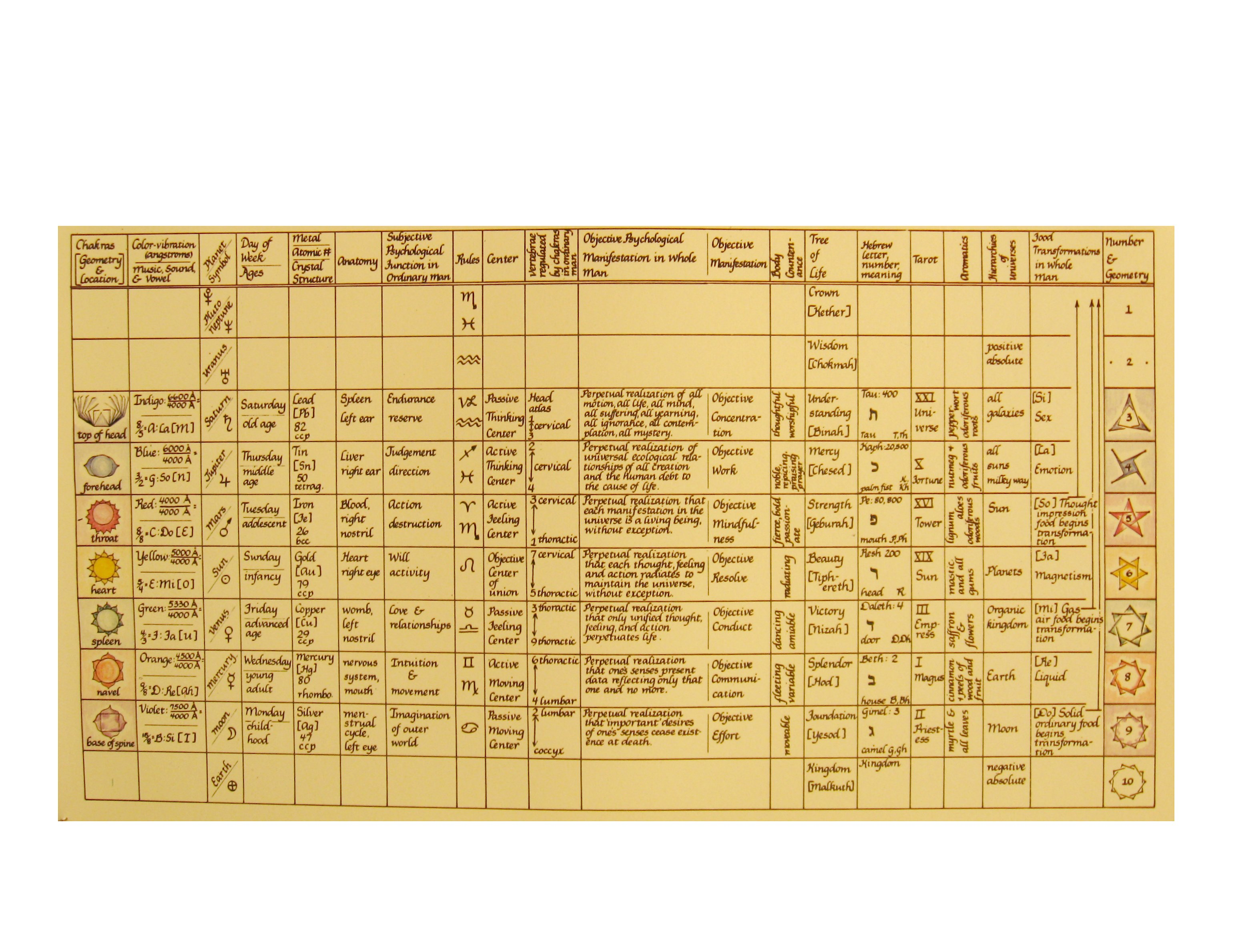 cosmology chart: Law of Seven